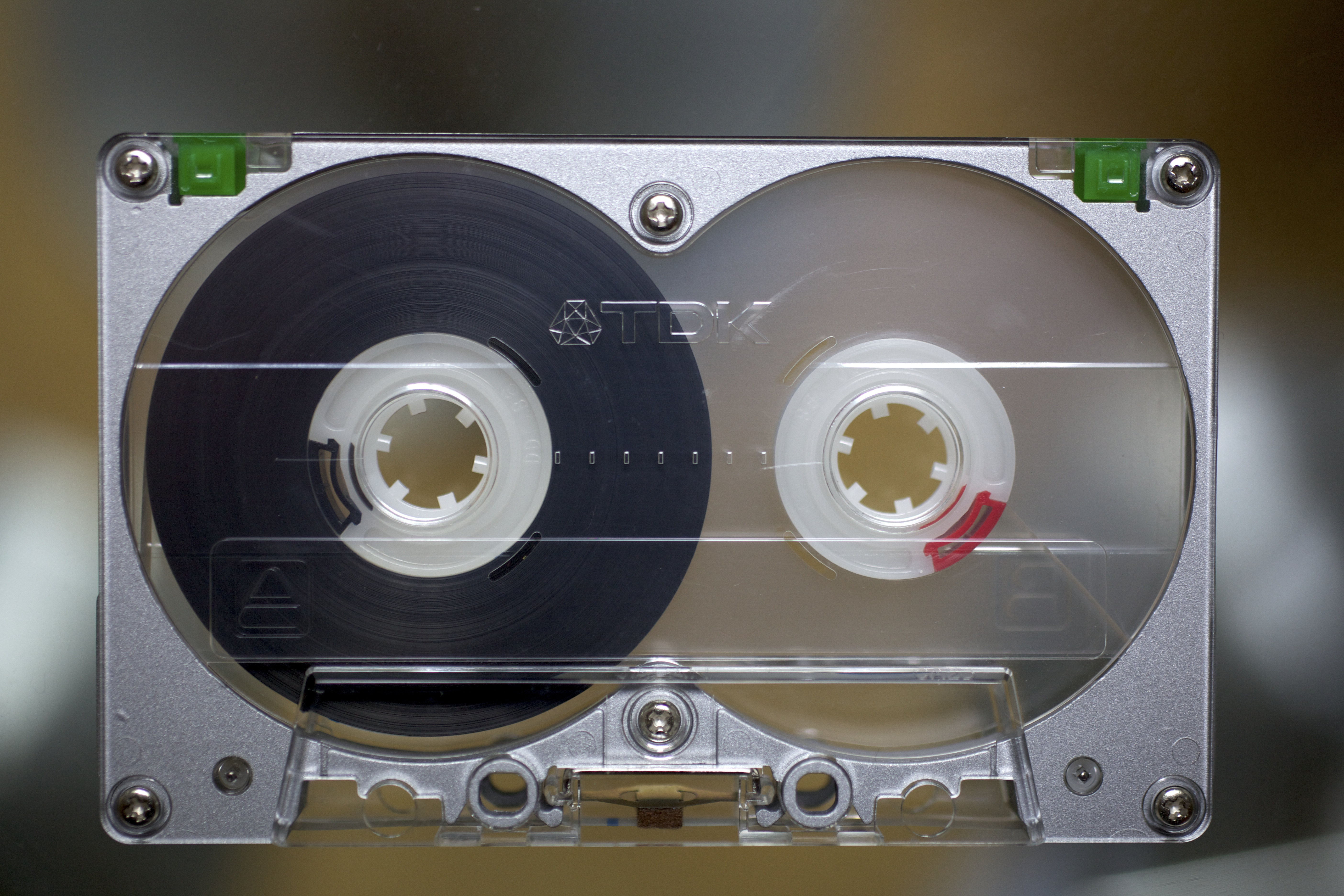 Striking design from 1982: These TDK tapes (Made In Japan) have an alloy metal frame and a thick plastic front cover.